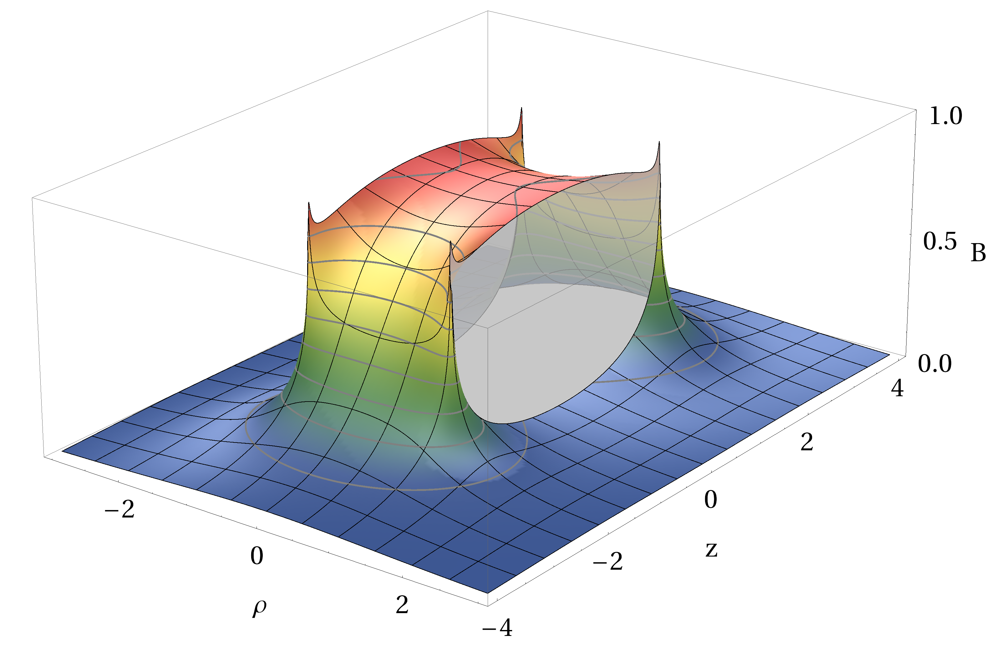 3D surface plot of the absolute magnetic field strength around an ideal solenoid of radius 1 and length 4.